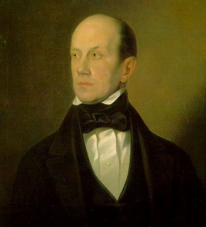 Pyotr Chaadaev (1794-1856)